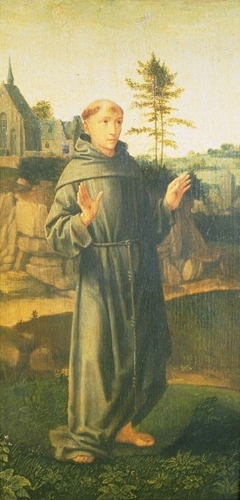 This image is available from the Netherlands Institute for Art Historyunder digital ID 49497. This tag does not indicate the copyright status of the attached work. A normal copyright tag is still required. See Commons:Licensing.